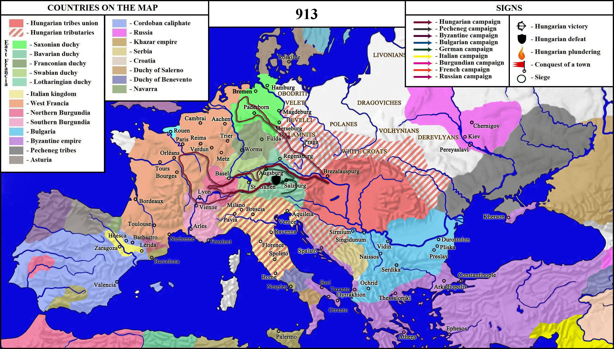 The Hungarian campaign in Europe from 913, reaching as far as the Western part of West Francia, ended with the defeat by Inn, which was the first important Hungarian defeat during the Hungarian campaigns in Europe.